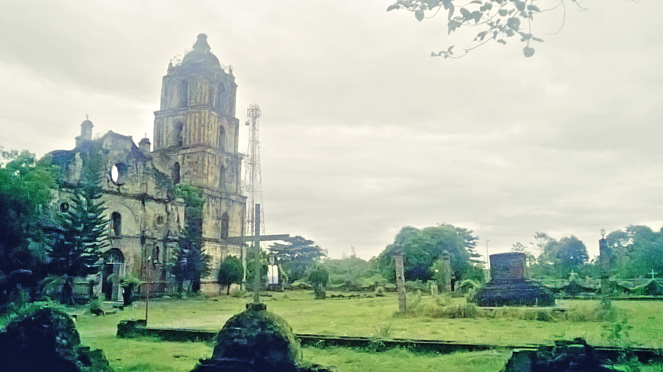 Ruins of San Pablo de Cabigan Church in Isabela